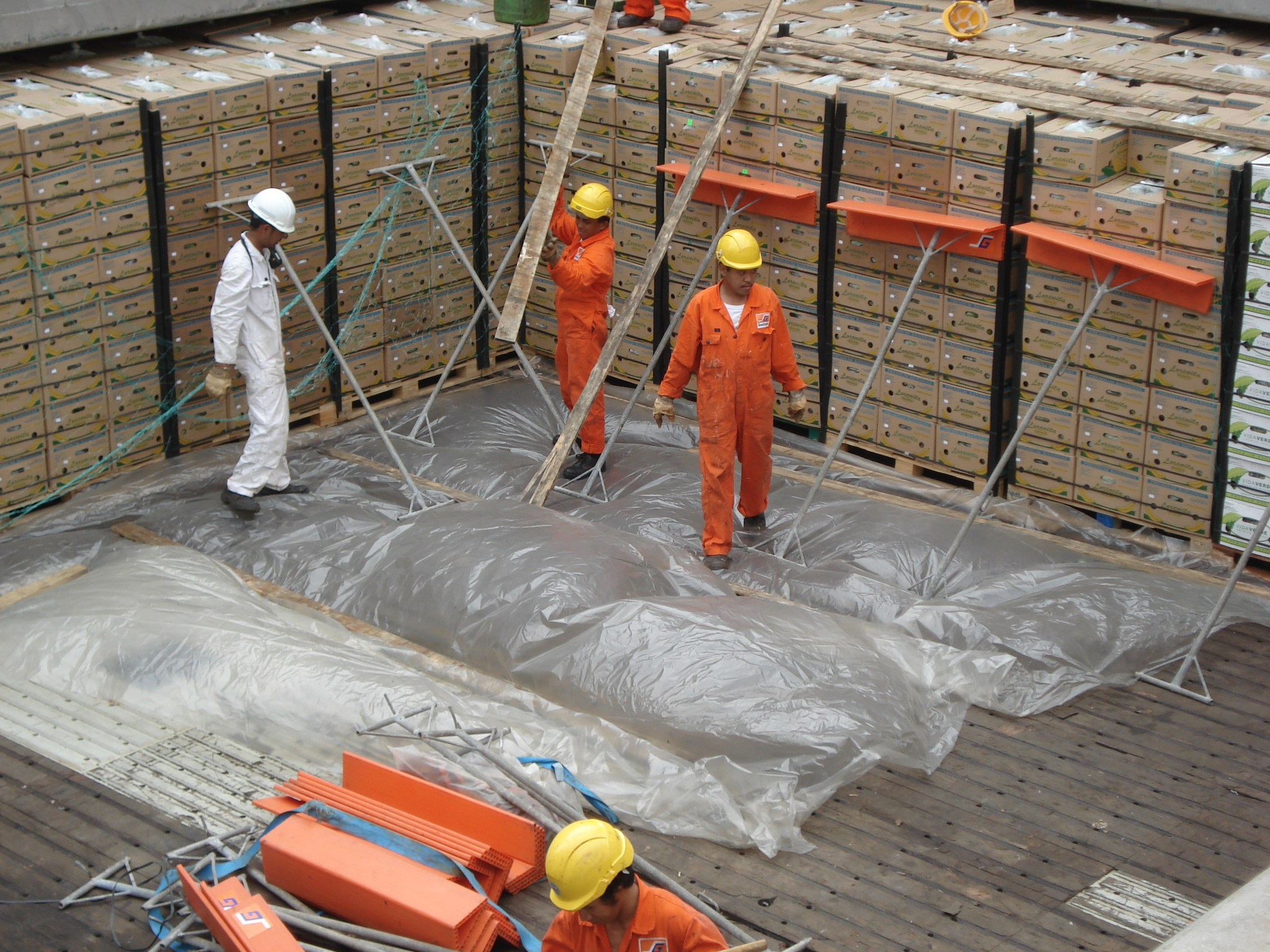 Lashing cargo in the hold of a ship